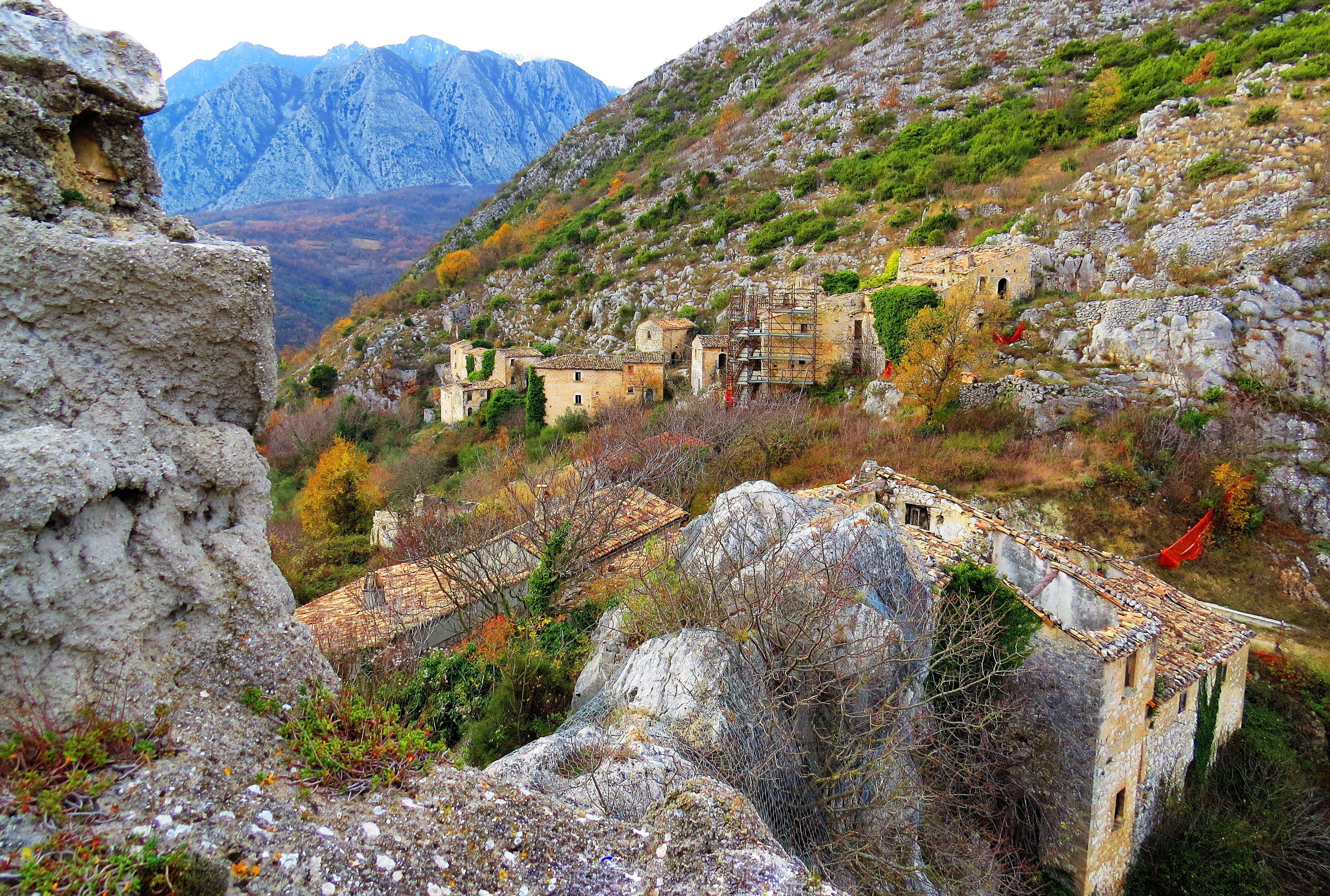 Rocchetta Alta